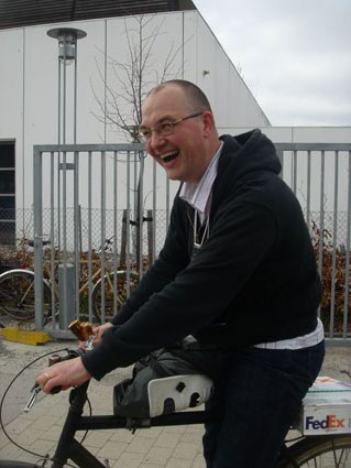 Teddy Kristiansen, at the Komiks.dk 2006 comics festival in København, Denmark.